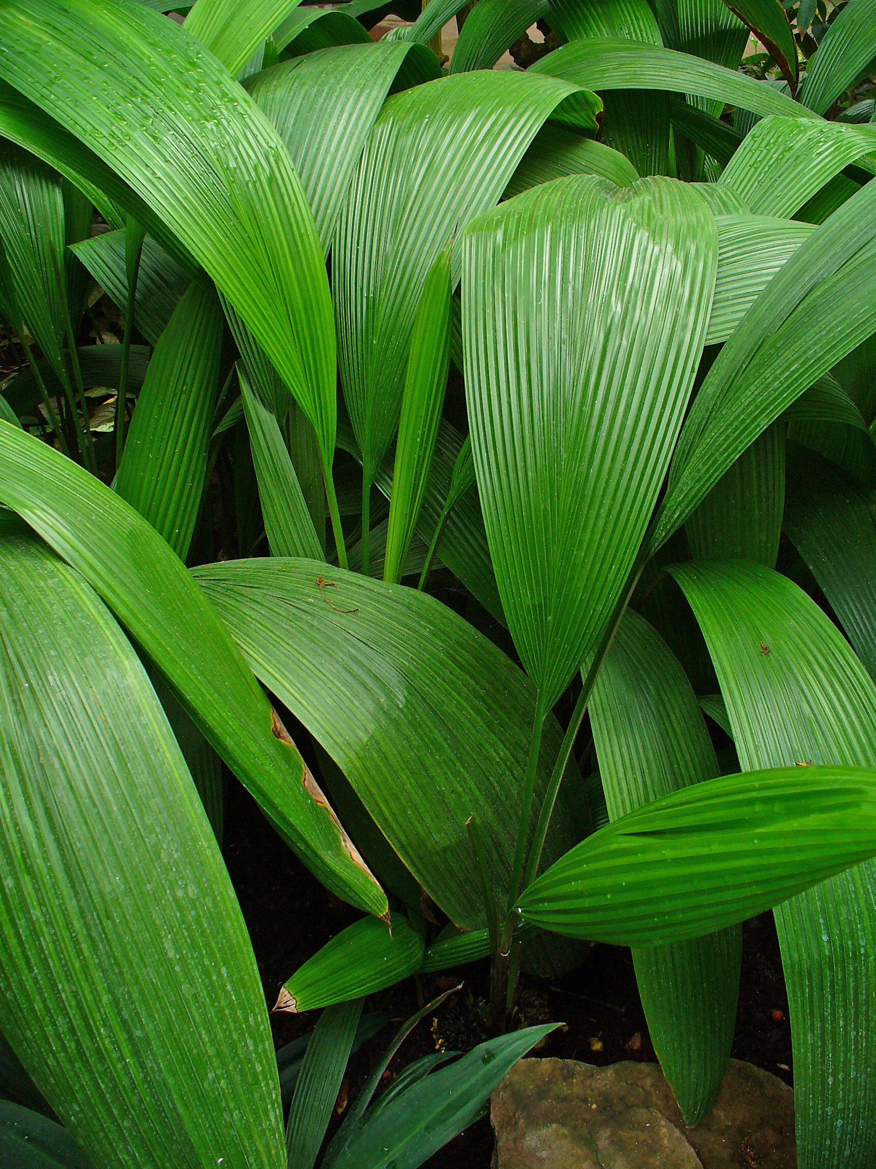 Dicranopygium microcephalum (Synonym:Carludovica microcephala), Cyclanthaceae, habitus; Botanical Garden KIT, Karlsruhe, Germany.